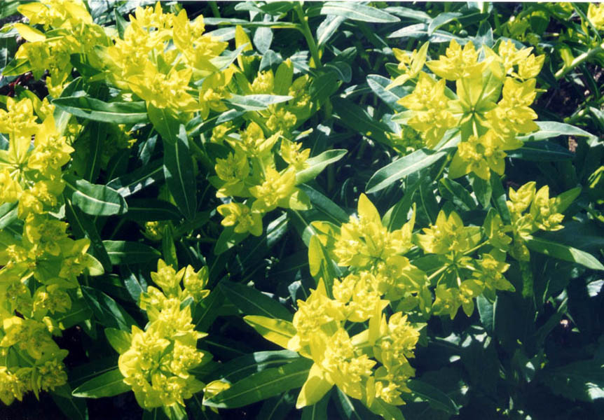 Euphorbia hyberna